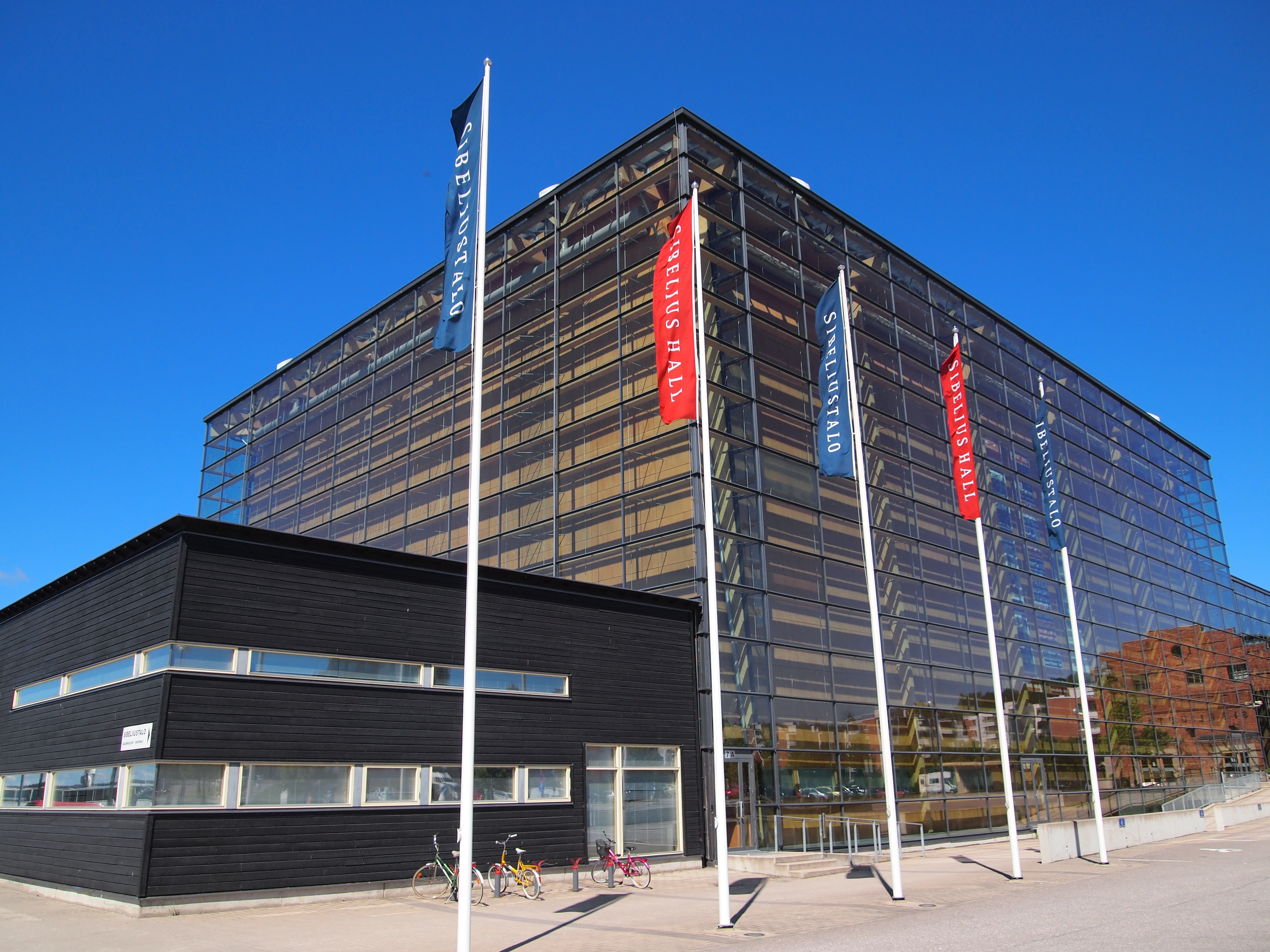 Sibelius hall, Lahti. This photograph was taken with an Olympus E-PL1